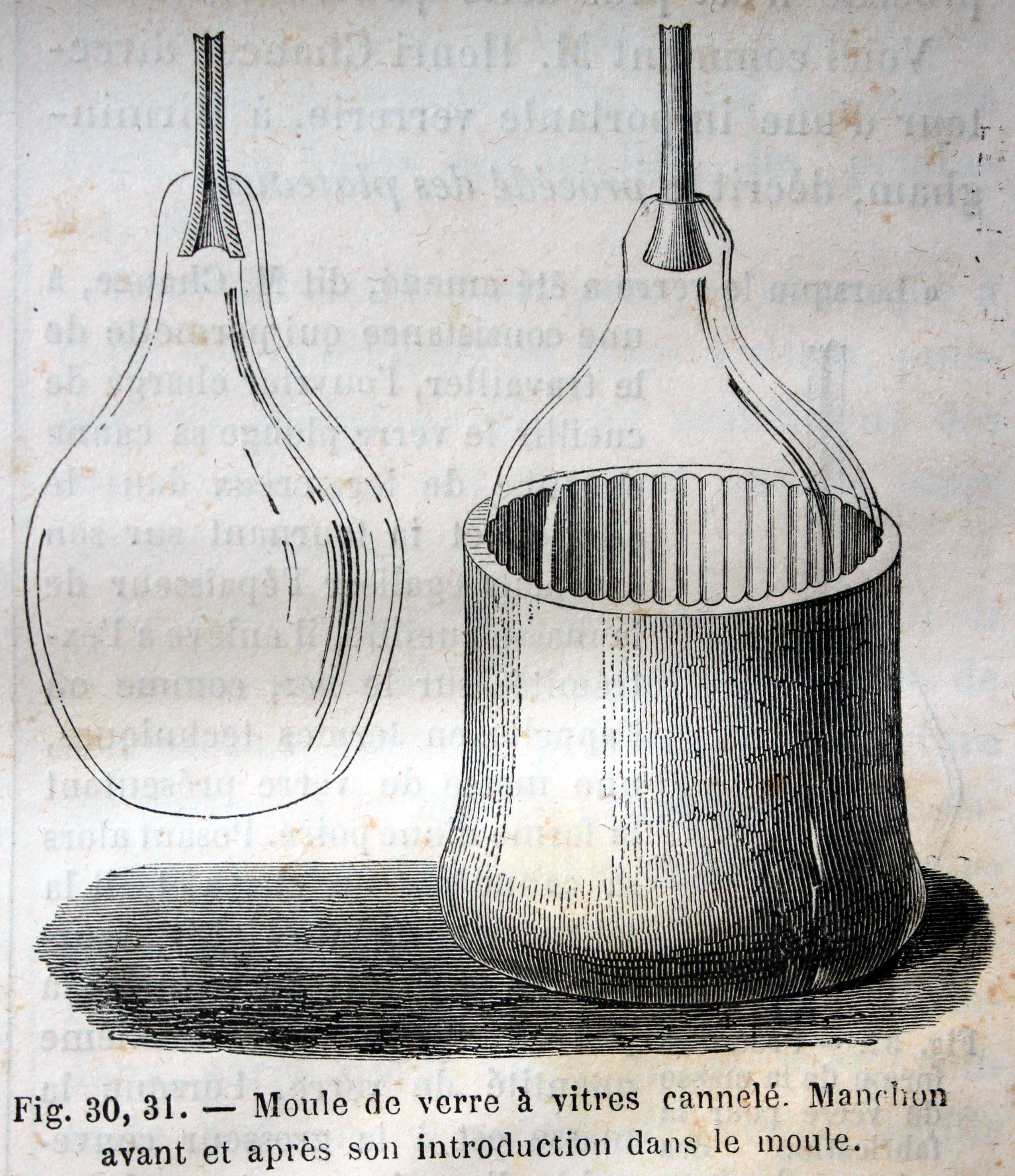 "Glass mold with grooved panes. Casing before and after insertion into the mold."